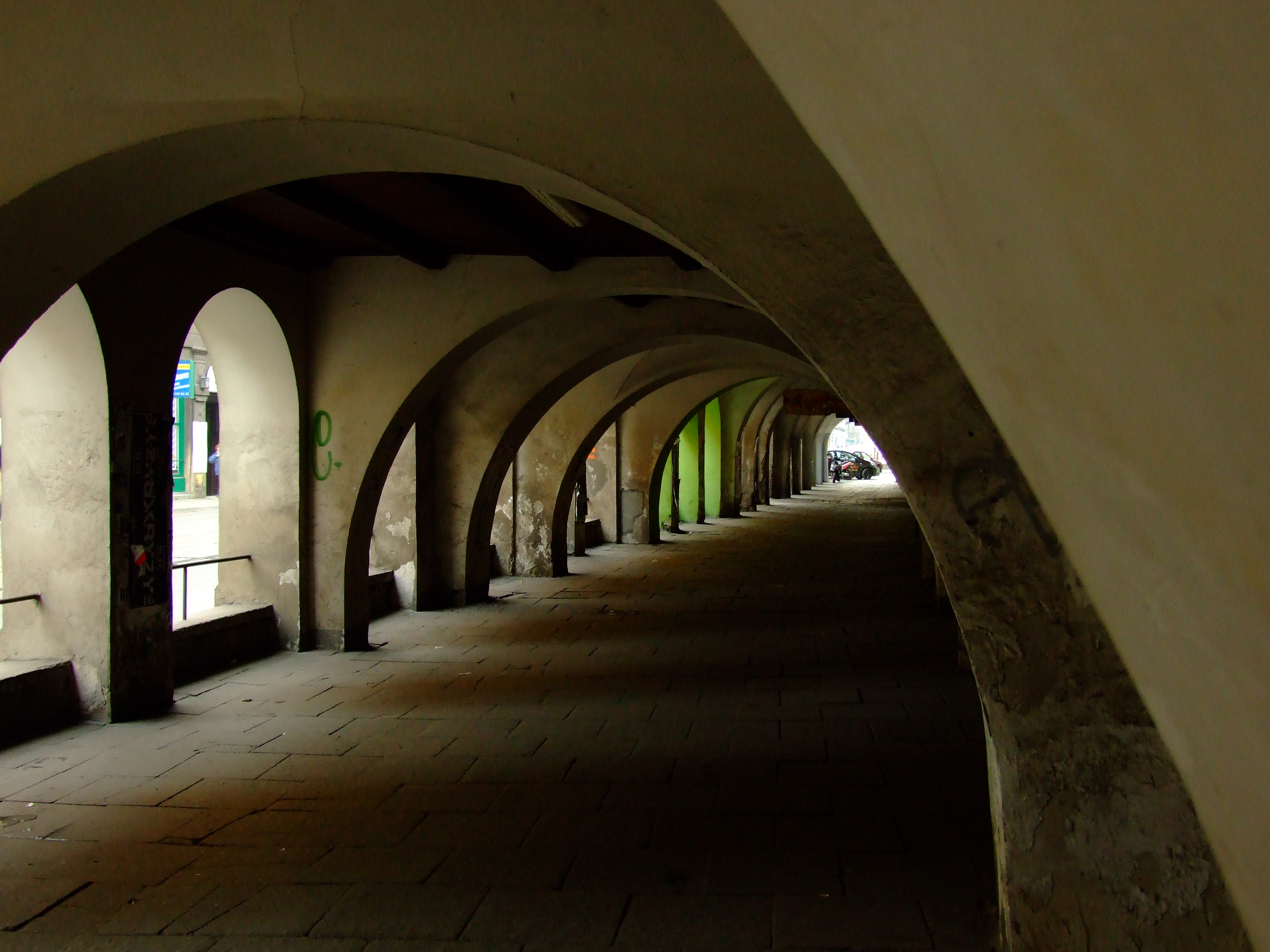 A Street in Kraków (under buildings), Lesser Polish Voivodship, Polandhelp